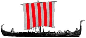 A version of Image:Vikingshipshortened.jpg with transparence